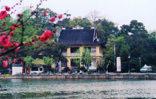 The Former Residence of Du Yuesheng (1888 - 1951) — Hangzhou (formerly transliterated as Hangchow). A protected Hang Zhou Historic House — in the city of Hangzhou, in Eastern China. A Chinese gangster who spent much of his life in Shanghai. He was a key supporter of the Kuomintang (KMT; aka Nationalists) and Chiang Kai-shek in their battle against the Communists during the 1920s. After the Chinese Civil War and the KMT's retreat to Taiwan, Du went into exile in Hong Kong.